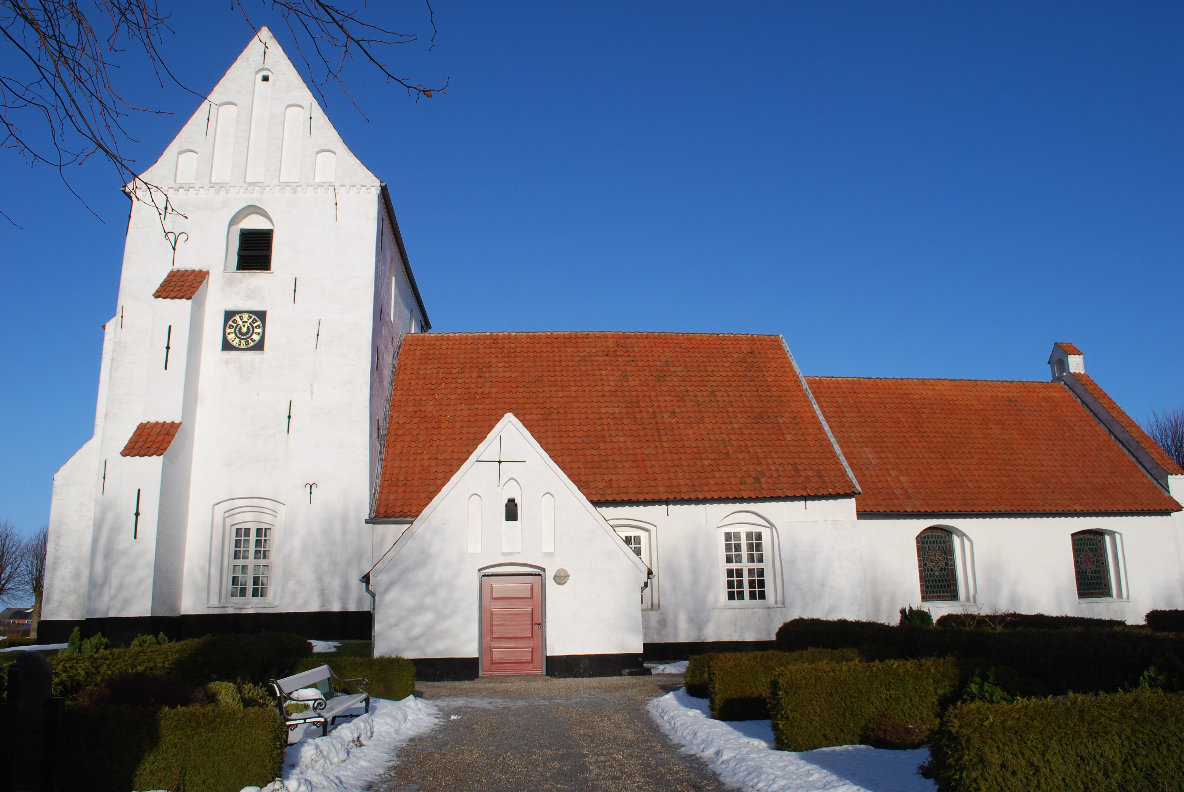 Church of Notmark (Vor Frue Kirke), Notmark, island of Als, Denmark